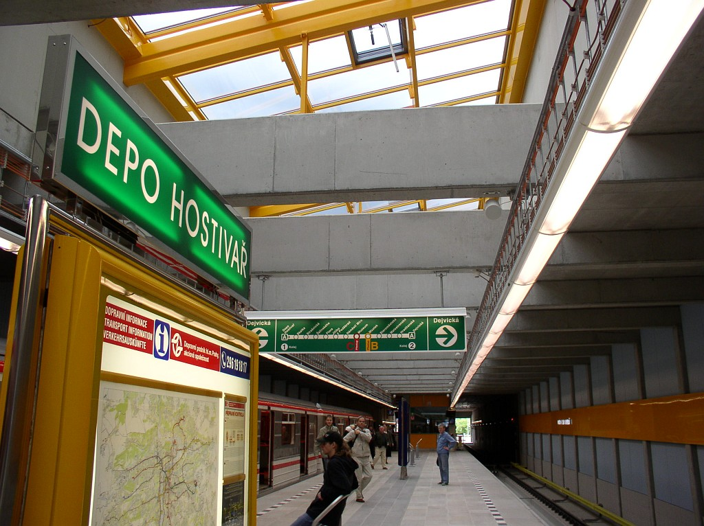 Metro station Depo Hostivař in Prague